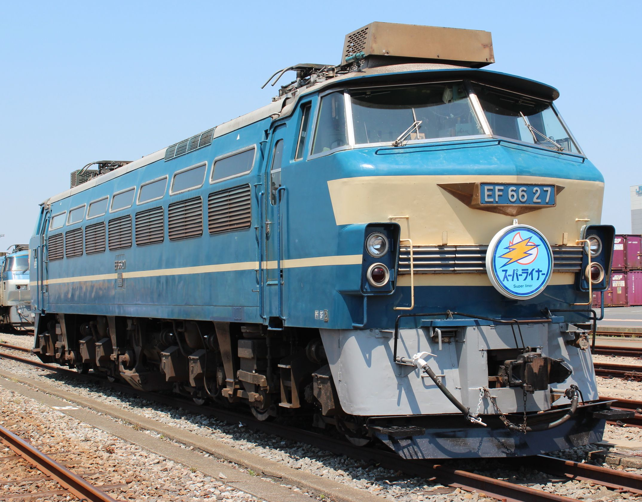 JR Freight Class EF66 electric locomotive EF66 27 at an open day event at Tokyo Freight Terminal